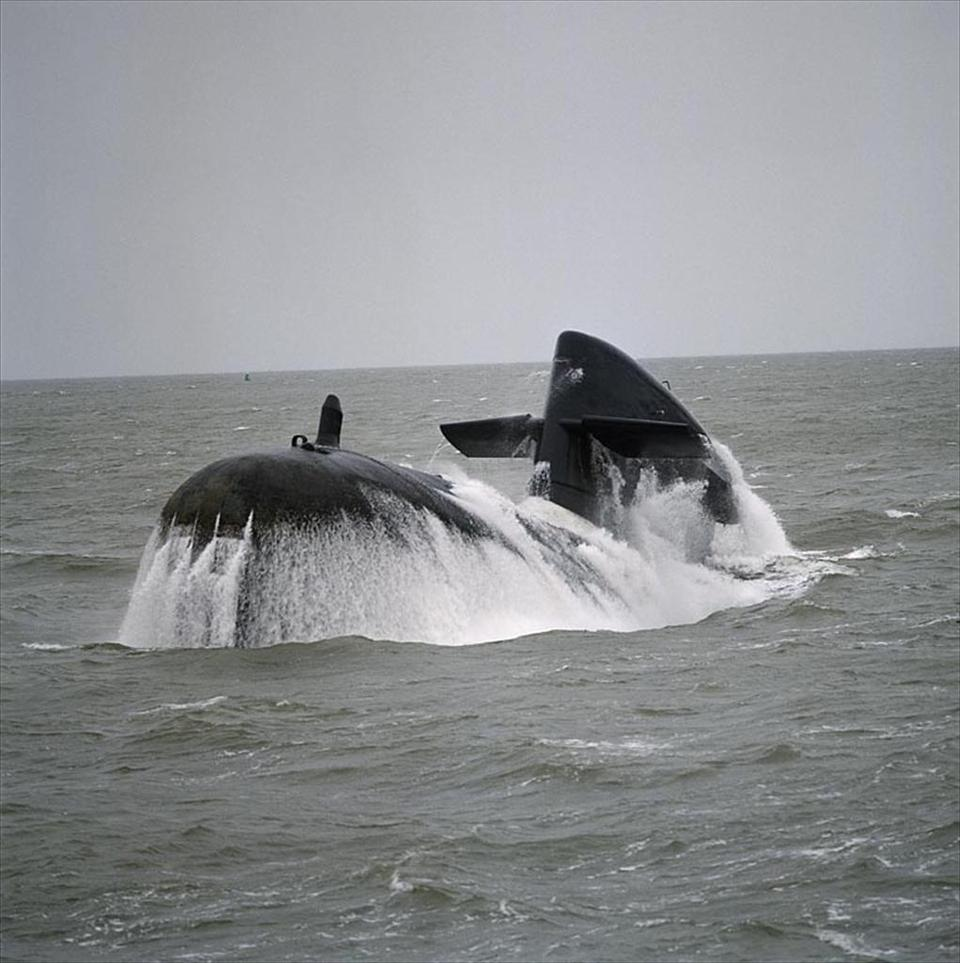 A Walrus-class submarine emerges out of the water